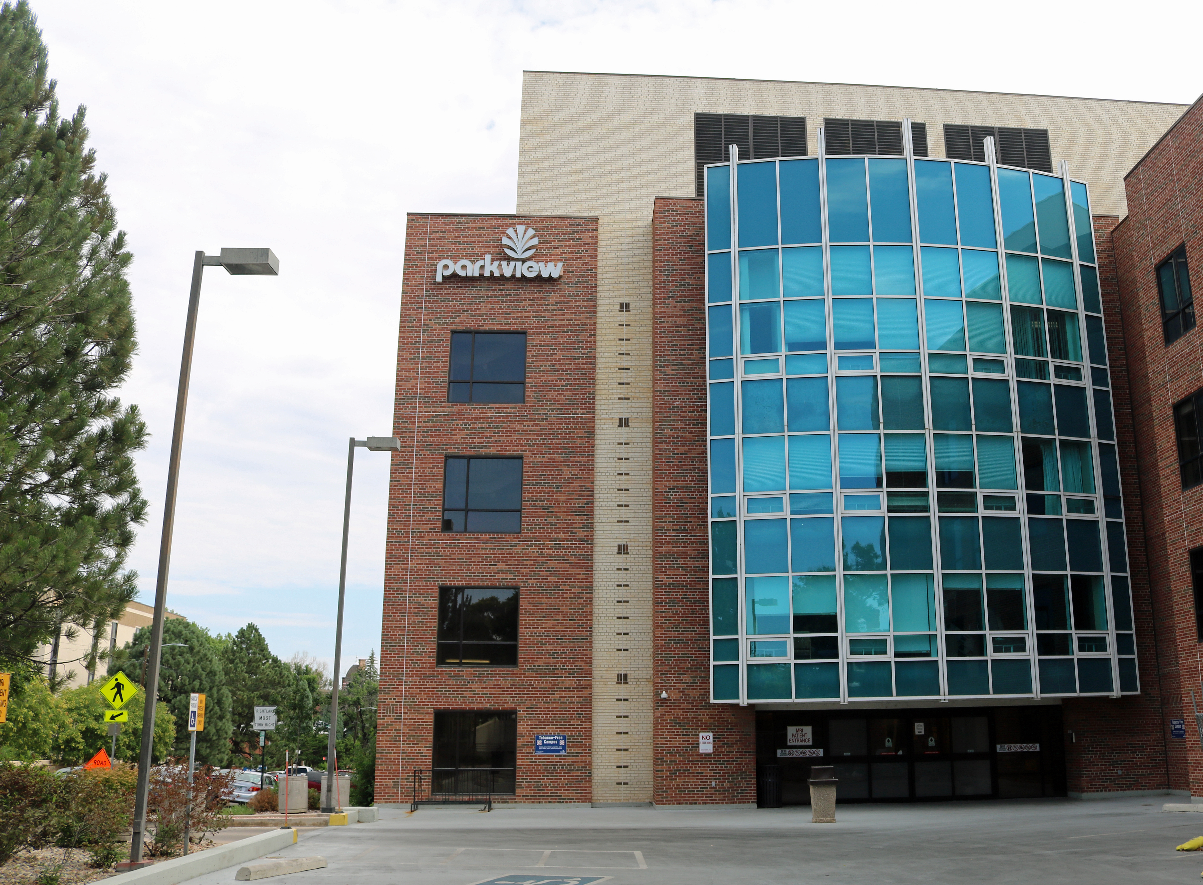 The main facade of Parkview Medical Center, located at 400 West 16th Street in Pueblo, Colorado.